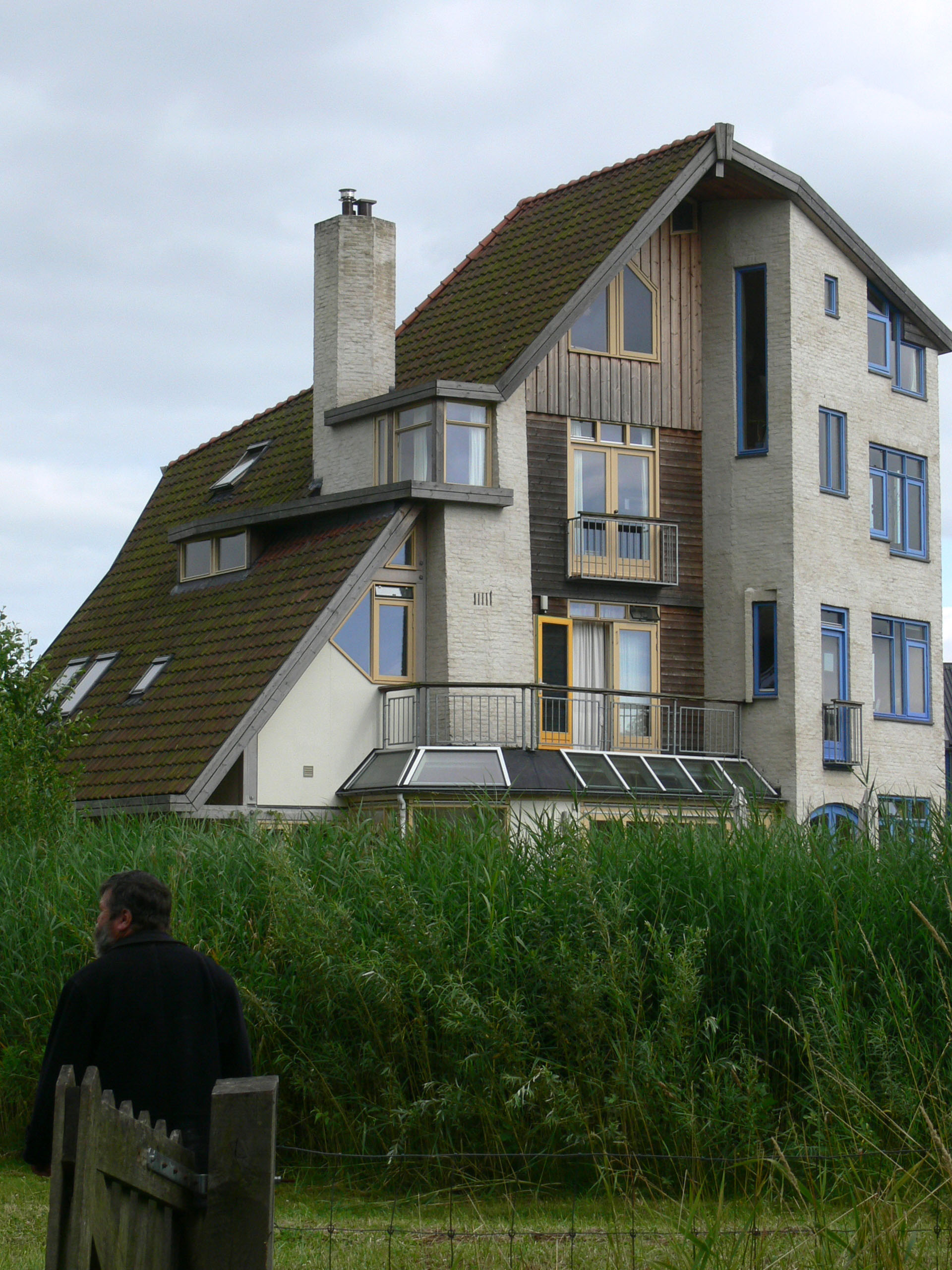 Self-construction in E.V.A. Lanxmeer district (a "green distric" named Lanxmeer, built at Culemborg, The Netherlands), wich is a recent (1994-2009) district (semi-public eco-building) of approximately 250 ecological houses, several offices and a urban farm. The project is based on "Sustainable Implant" with a spatial combinaison of natural systems, technical approach of integrated waste (wastewater) / energy system and écological and social purposes, for an urban neighborhood. The district is in an ecologically sensitive area (former drinking waterextraction and retention area). The conception of this district is based on permaculture, and organic design, a small biogas installation (able to treate black water and organic waste and garden & park waste), a combined Heat Power. Some houses are in closed greenhouse. A semi-public building (the ‘EVA Centre) should yet be made, based on the Living Machine concept.